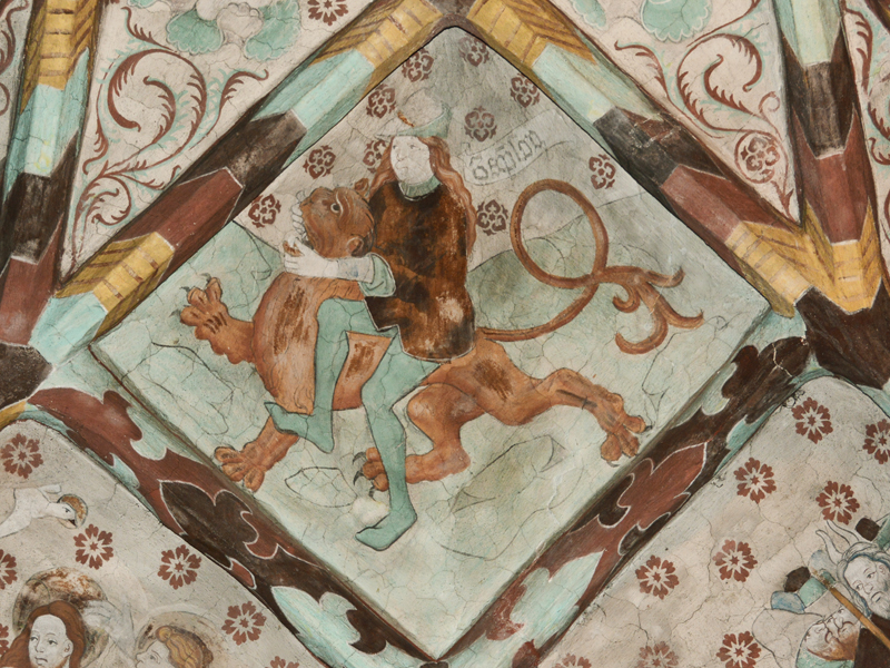 Härkeberga church, Samson and the lion